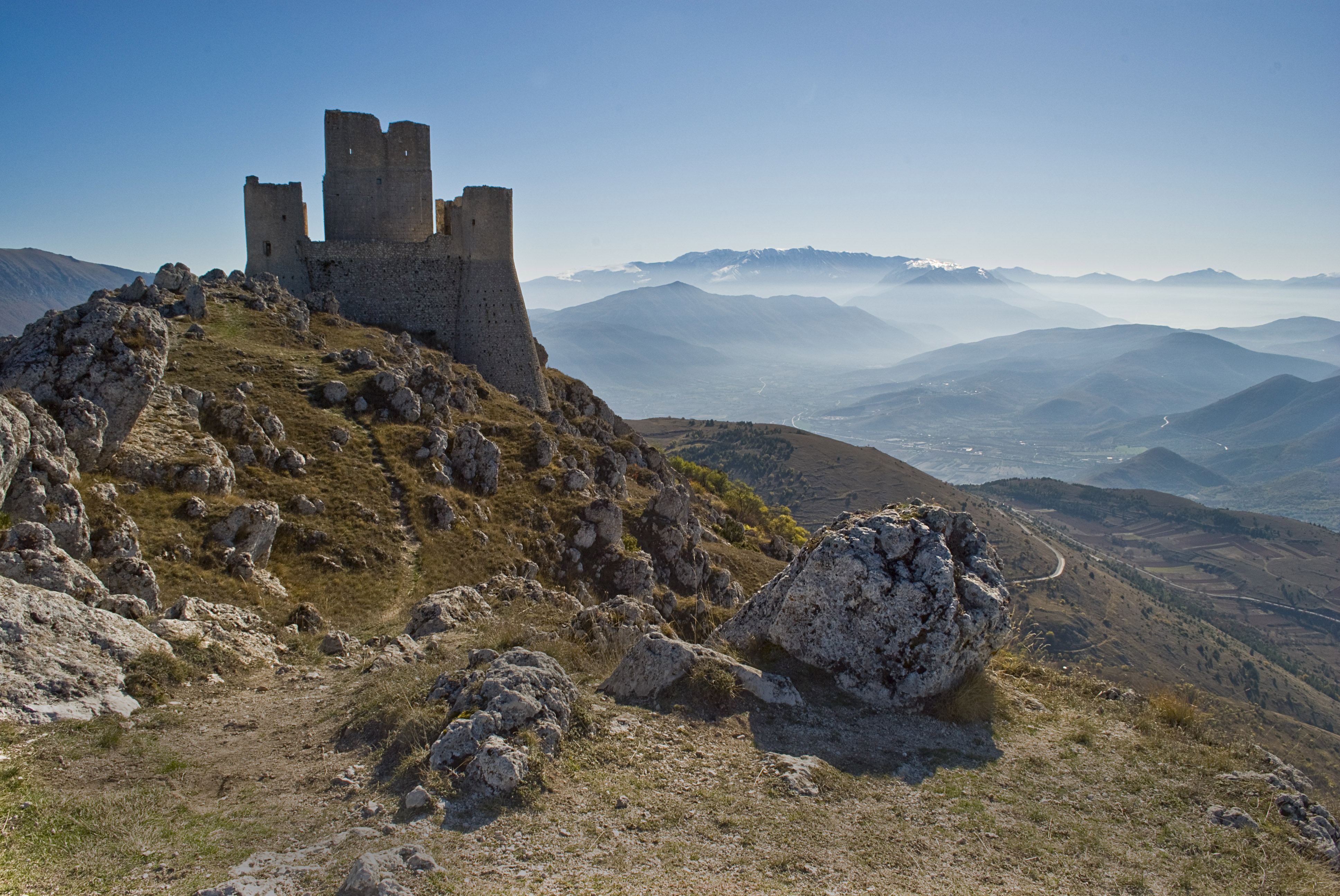 Rocca Calascio castle in the Abruzzi, Italy.